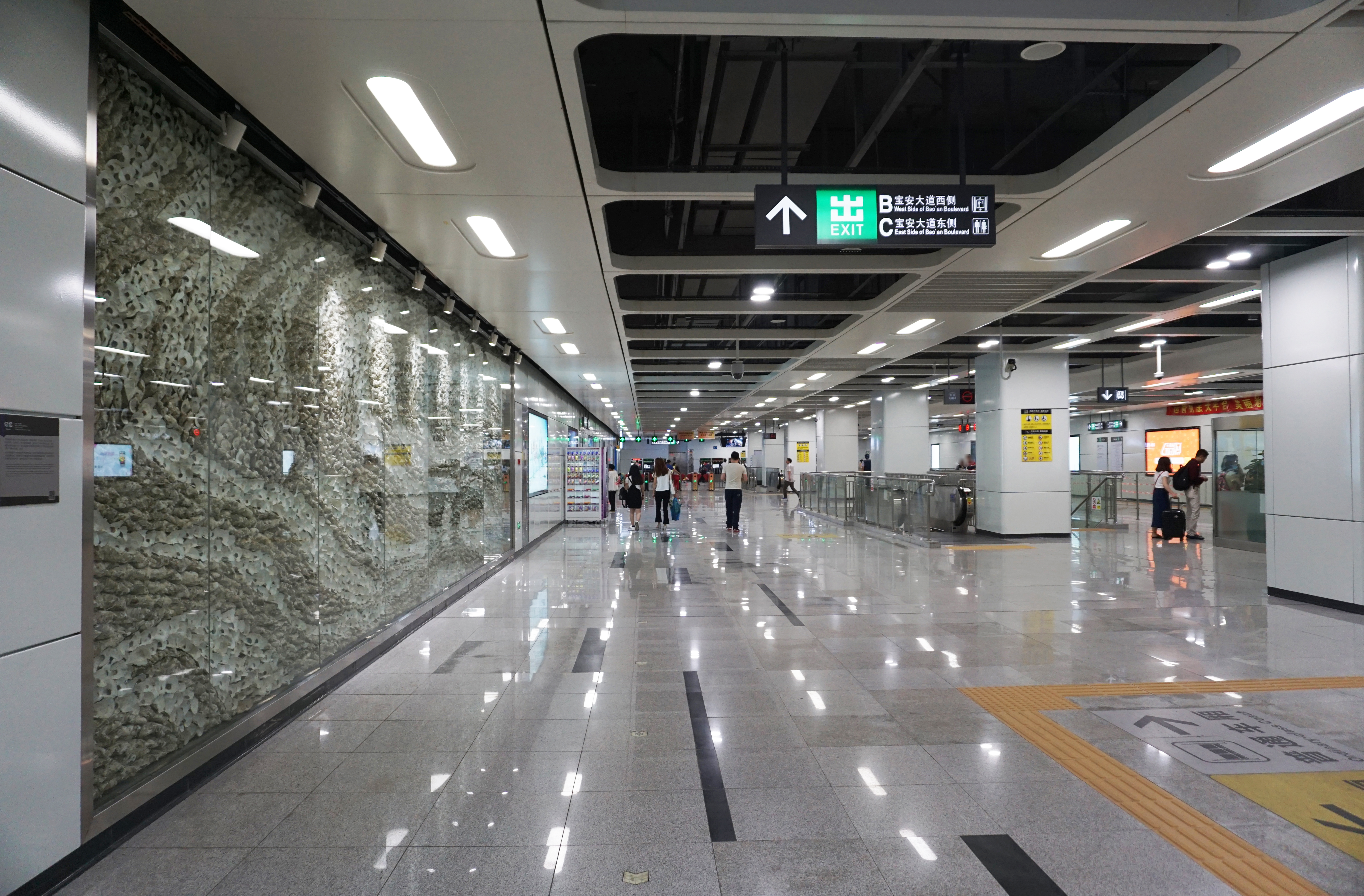 Fuyong Station in Fuyong, Shenzhen.